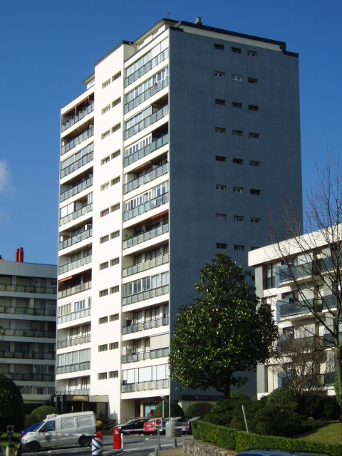 Euromar apartment building in Zarautz (Gipuzkoa).